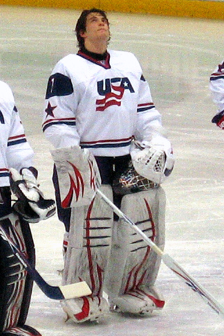 USA U18 Ice Hockey Team #1 John Gibson